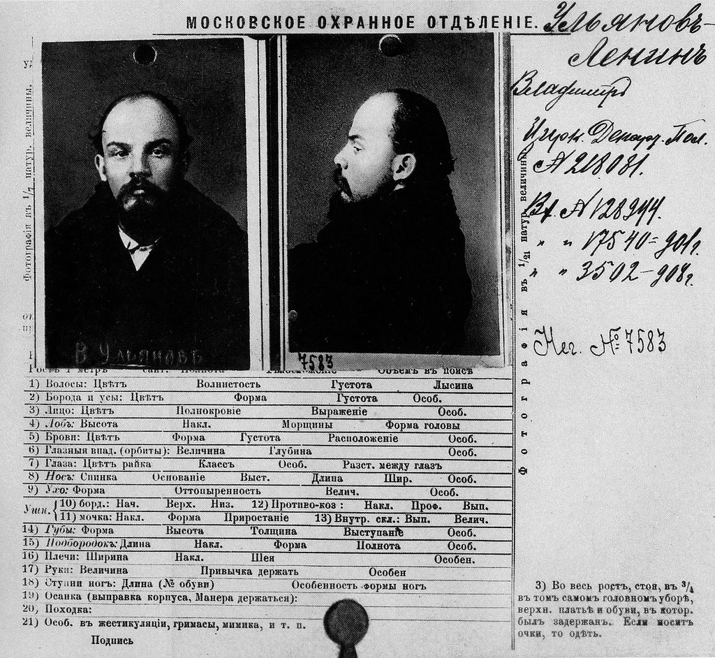 Record card made by tarist secret police (Okhrana) department Moscow about Vladimir I. Lenin, during his arrest in connection with the case of the St. Petersburg "League of Struggle for the Emancipation of the Working Class." Not earlier than December 9th /21st/, and not later than December 20th /January 1st, 1896/.